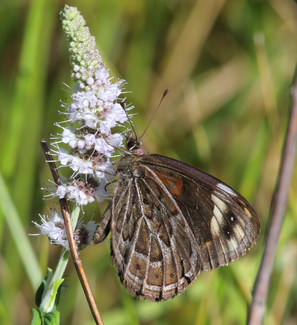 Large widow Torynesis magna; on the Lootsberg Pass, Eastern Cape, South Africa. LepiMAP record no. 619876